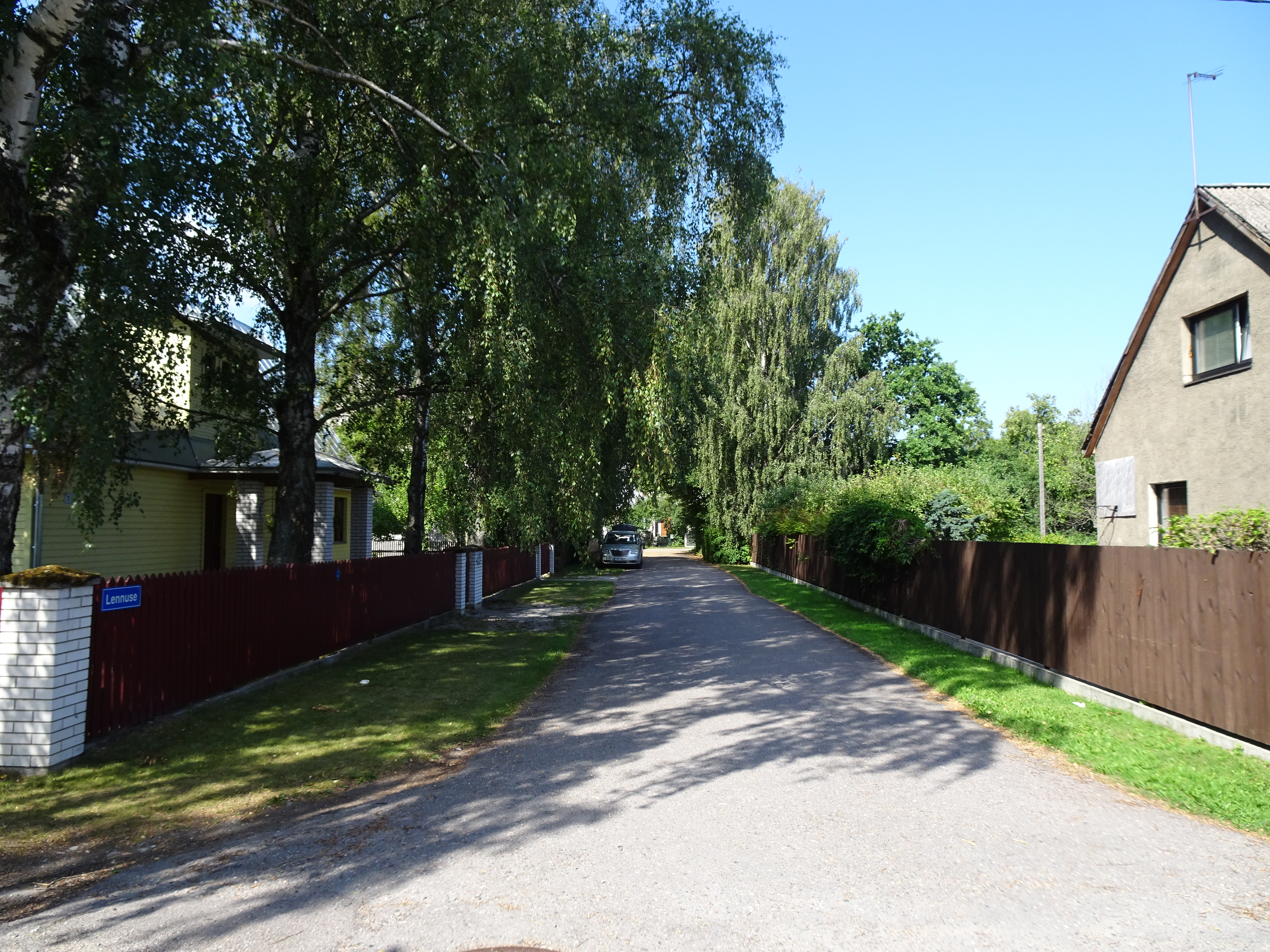 Lennuse Street in Tallinn, Estonia